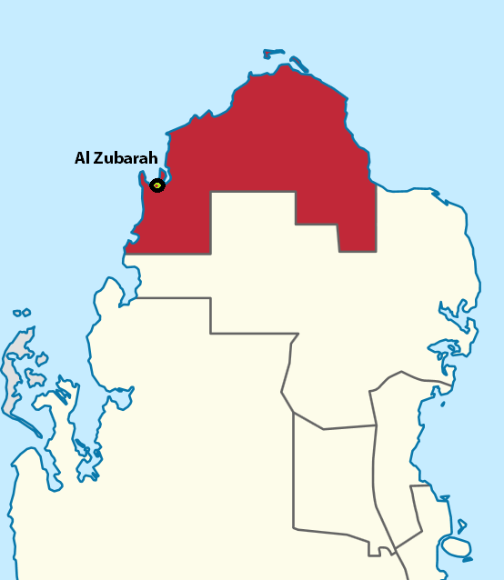 A map showing the geographical location of Al Zubarah in north-western Qatar, the municipality of Madinat ash Shamal